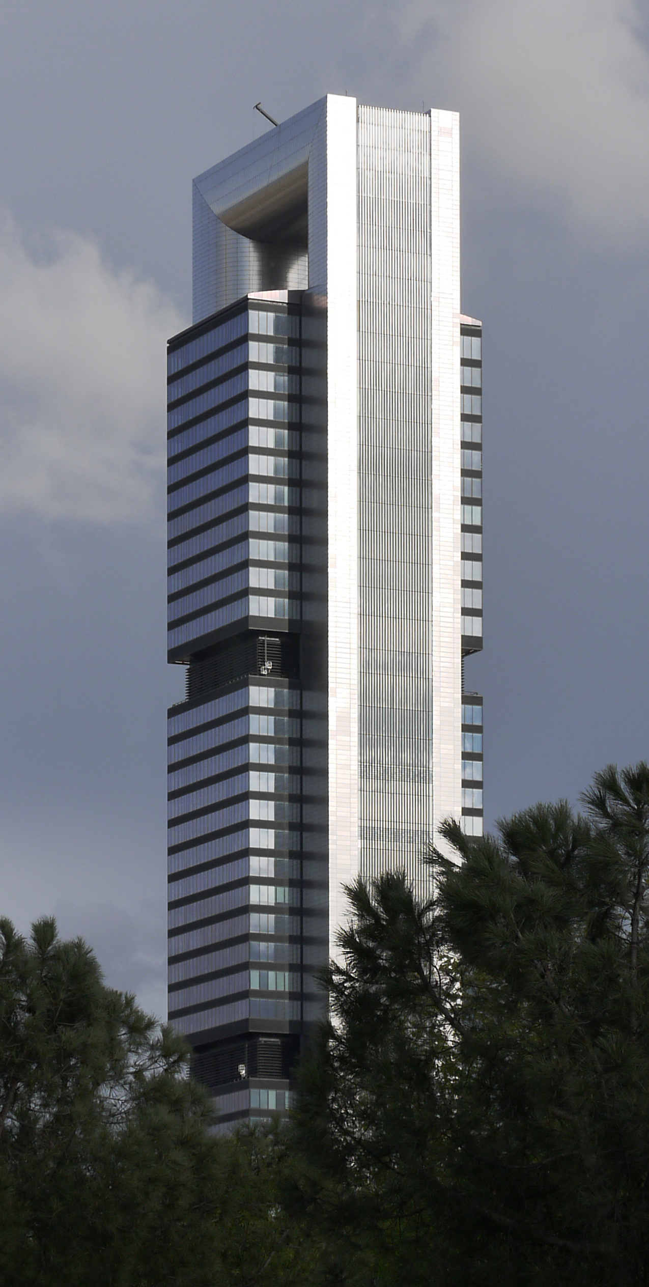 Madrid Cuatro Torres Business Area, Torre Caja Madrid. Madrid, Spain